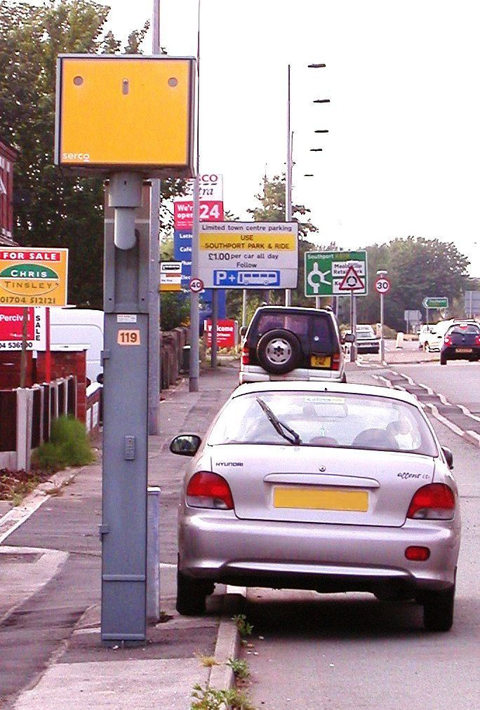 Rear view of a Gatso speed camera, photographed in Southport, Merseyside, England, showing the obligatory yellow panel to alert approaching motorists.